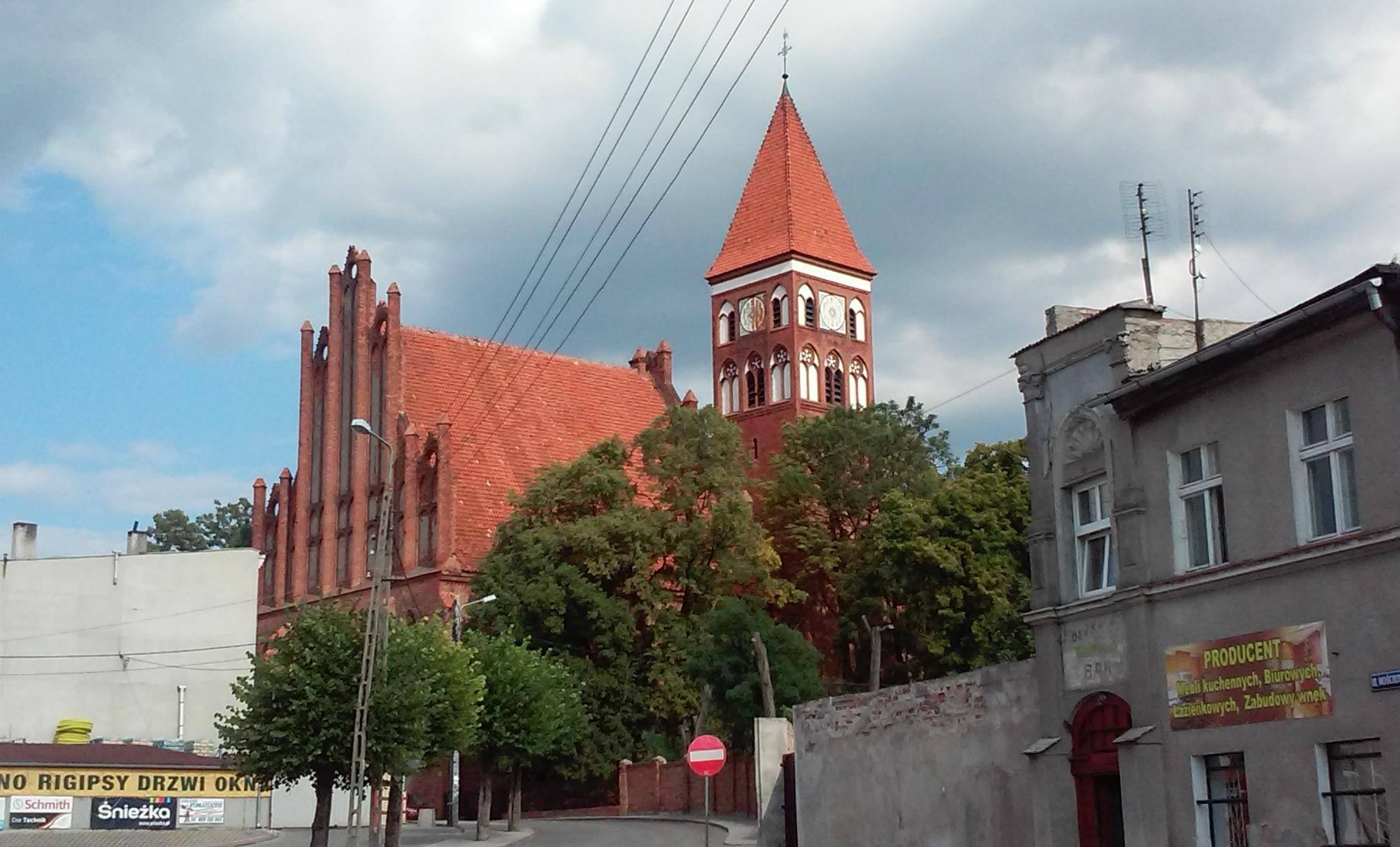 Nowe, Kuyavian-Pomeranian Voivodeship, Poland